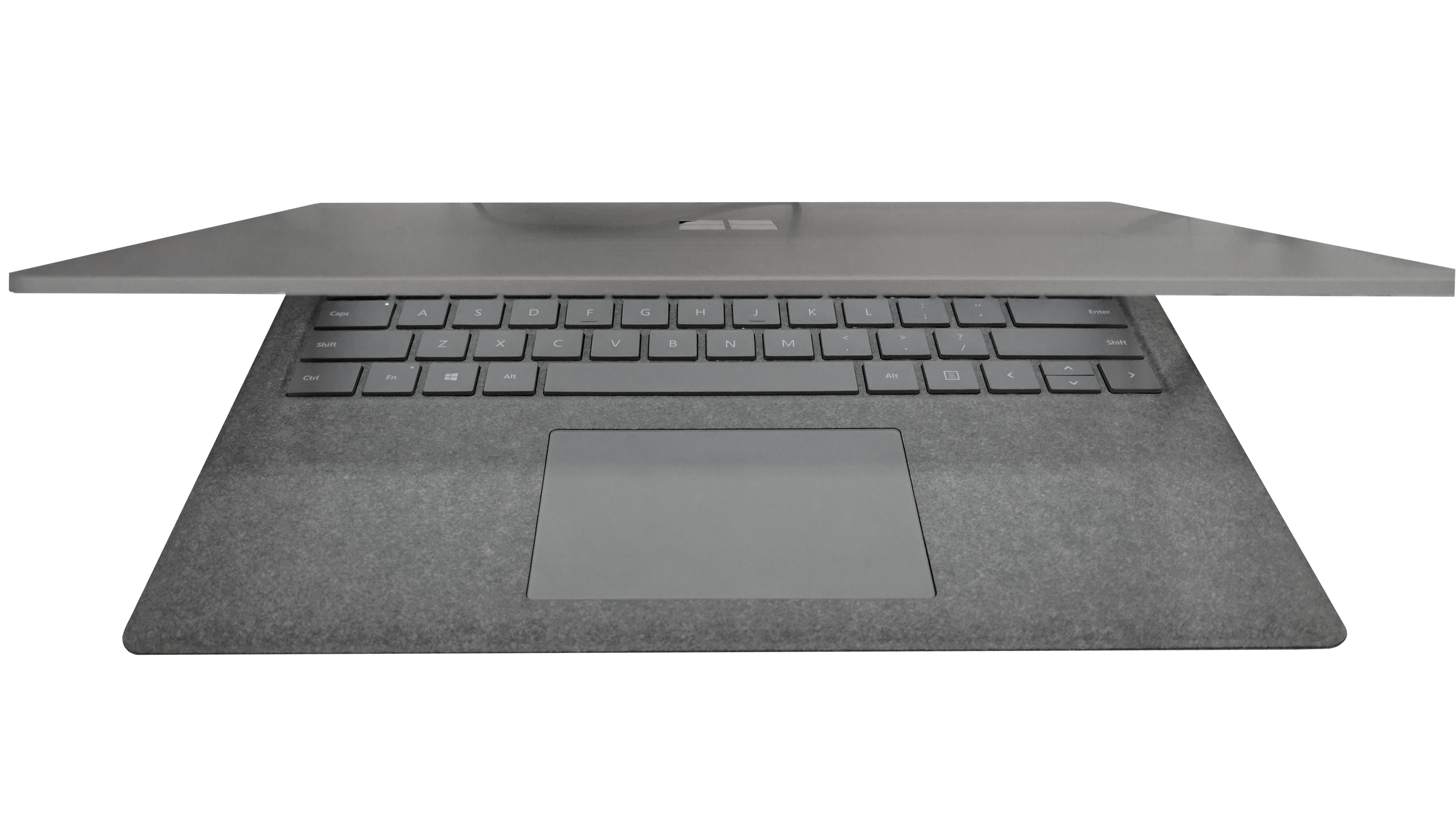 Photo of the Surface Laptop